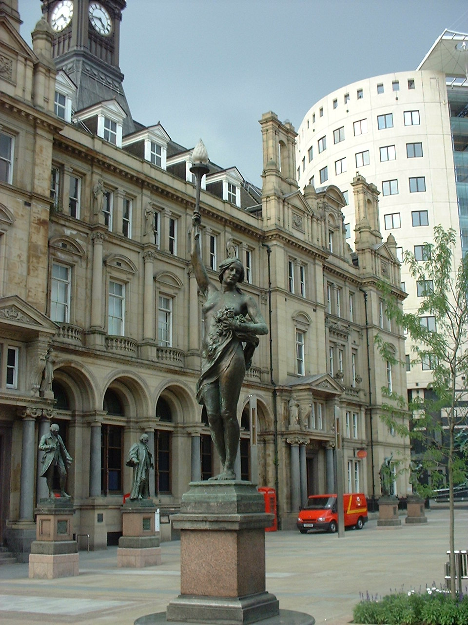 City Square sculpture